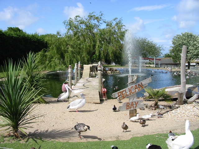 Pelican Bay. One of the attractions at Flamingo Park waterfowl gardens, (now called Seaview Wildlife Encounter), near Seaview, Isle-of-Wight, United Kingdom.